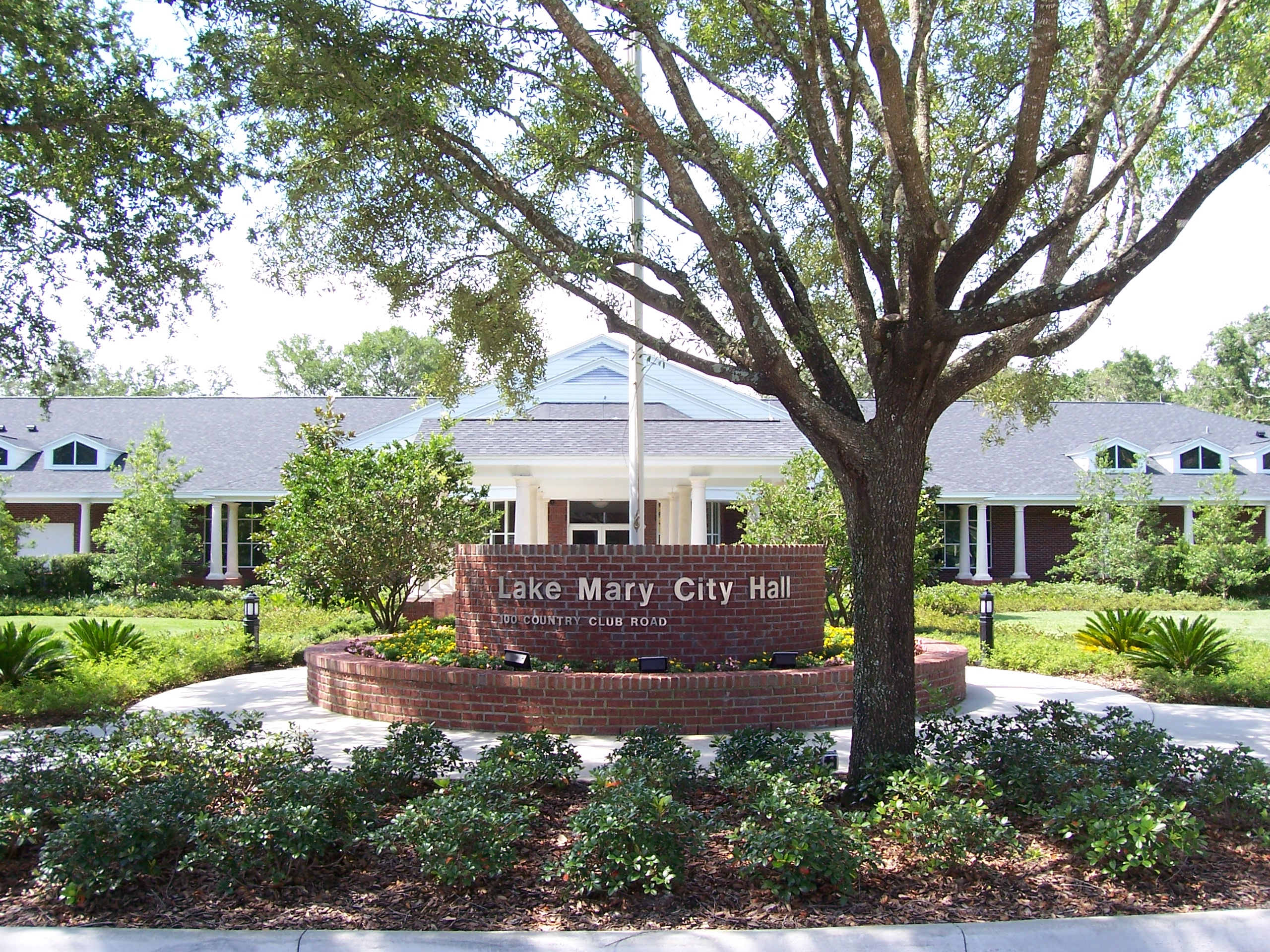 Lake Mary City Hall Lake Mary, Florida, USA Photo taken June 2005 by Tetraminoe Copyright © 2005 by Gavin Baker. Some rights reserved. See photo set on Flickr